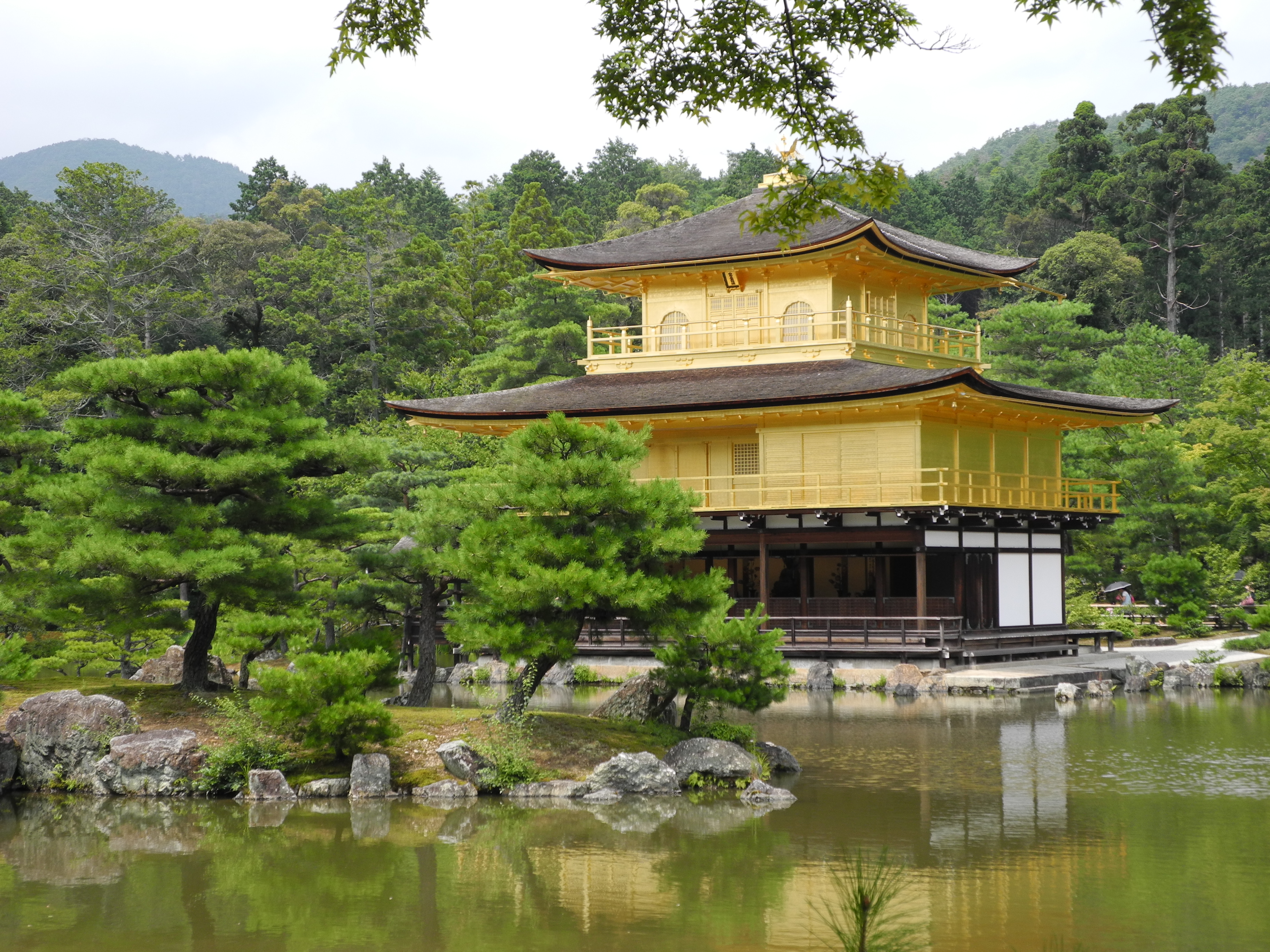 Kinkakuji in the early afternoon sun. Kyoto, Japan.